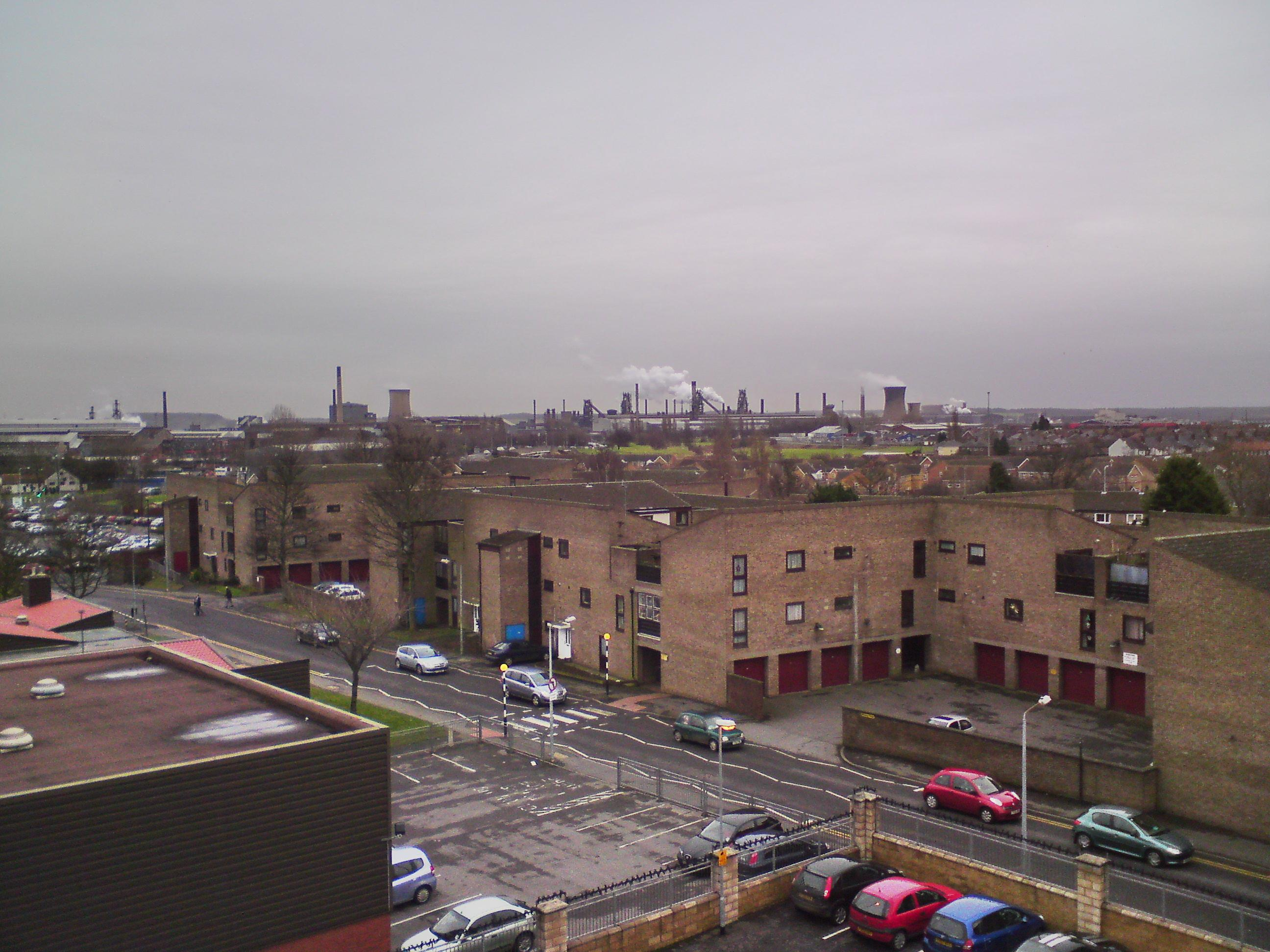 Scunthorpe skyline